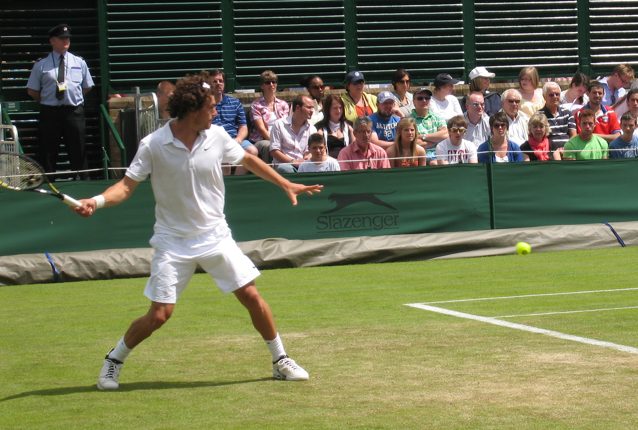 Frank Dancevic hitting a forehand at Wimbledon 2008 Round 2 against Bobby Reynold